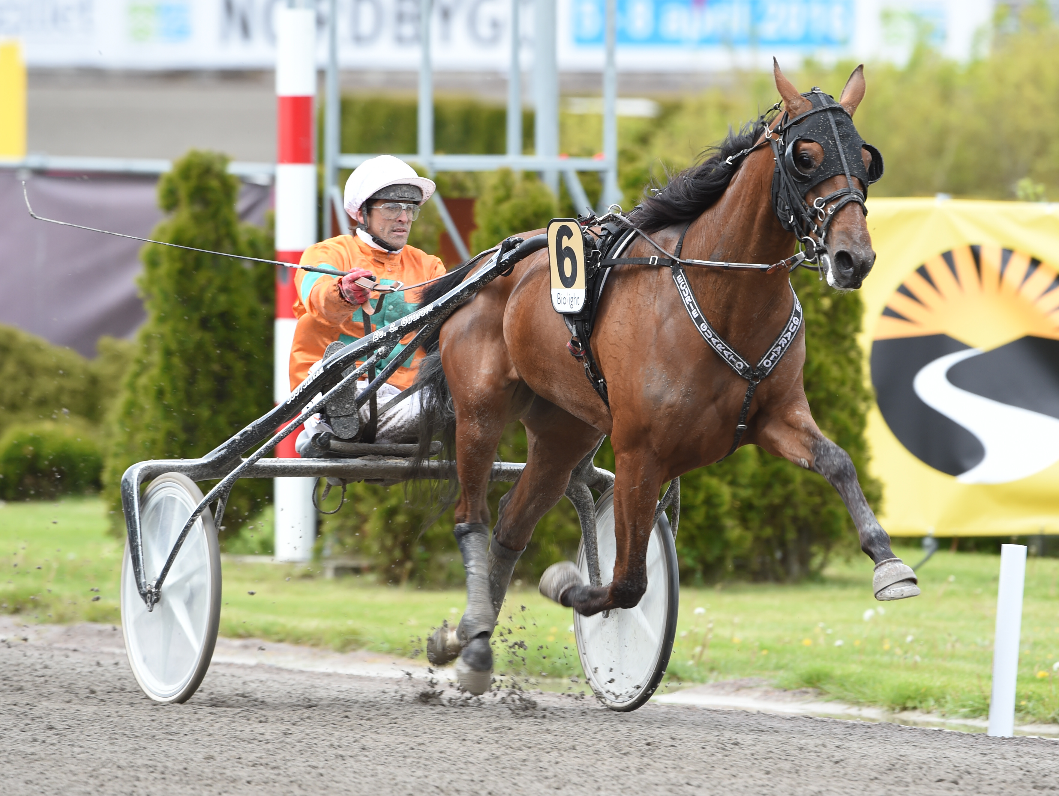 Billie de Montfort and driver Eric Raffin at Solvalla, 2015-05-31.